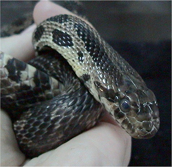 Pantherophis vulpina